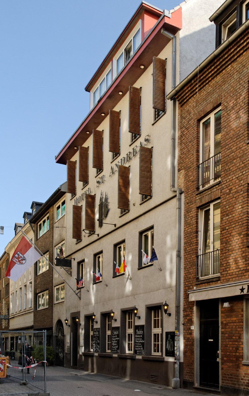 House Andreasstraße 13 in Düsseldorf-Altstadt, Germany